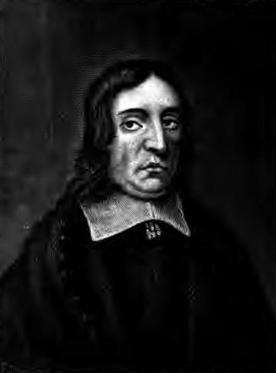 Portrait of Christopher Ness (1621–1705), English ejected minister .